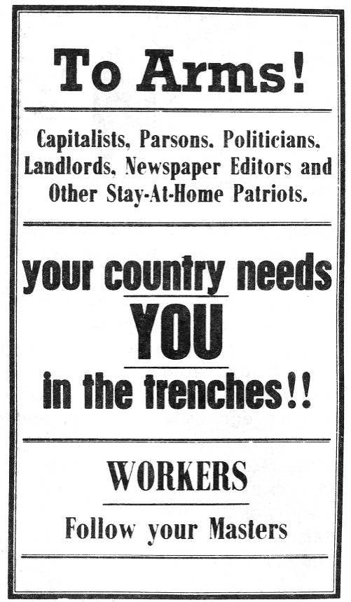 Poster published by the Industrial Workers of the World (IWW) in Australia against conscription in 1916.